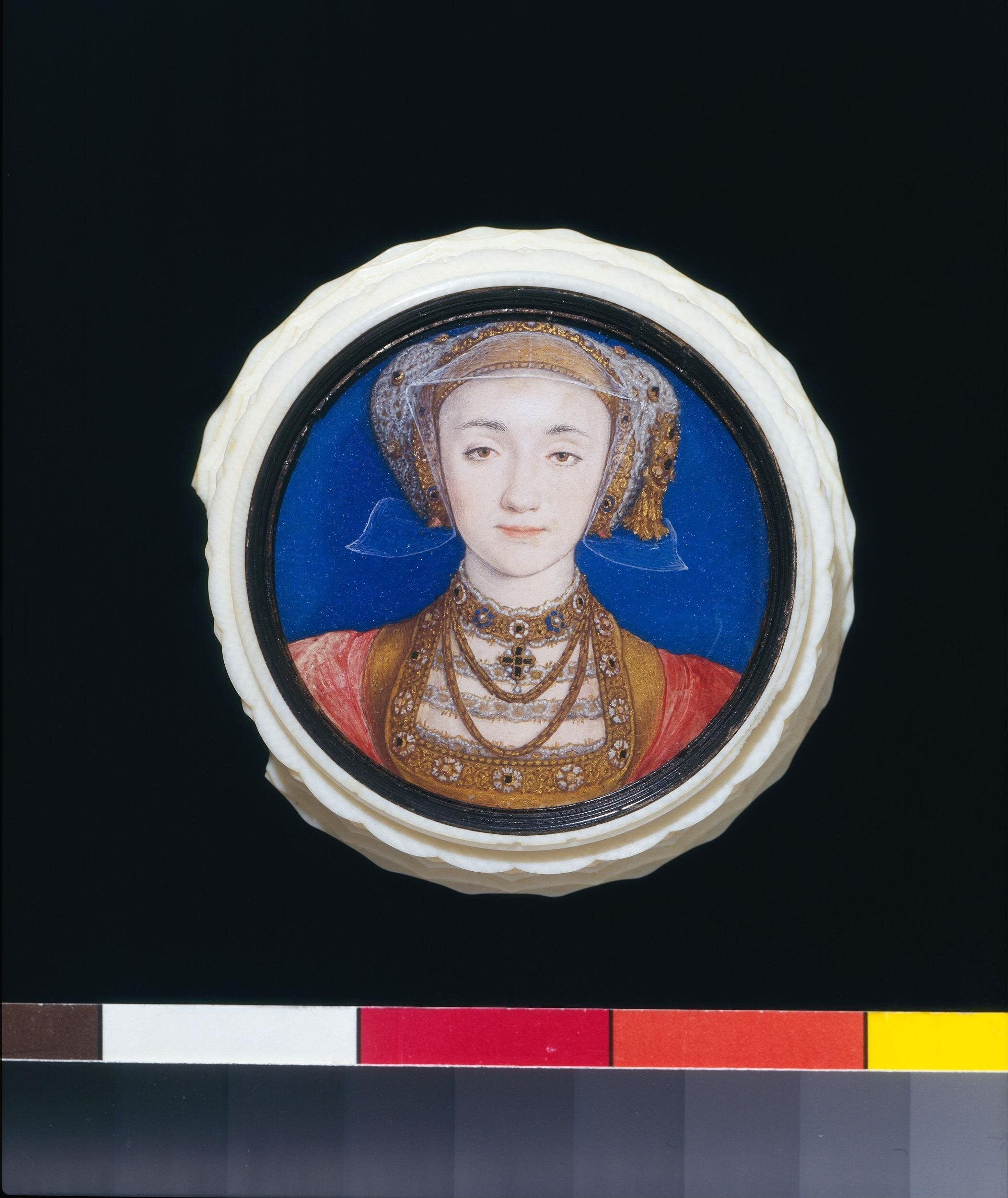 Portrait miniature of Anne of Cleves (1515-1557), set in a turned ivory box.